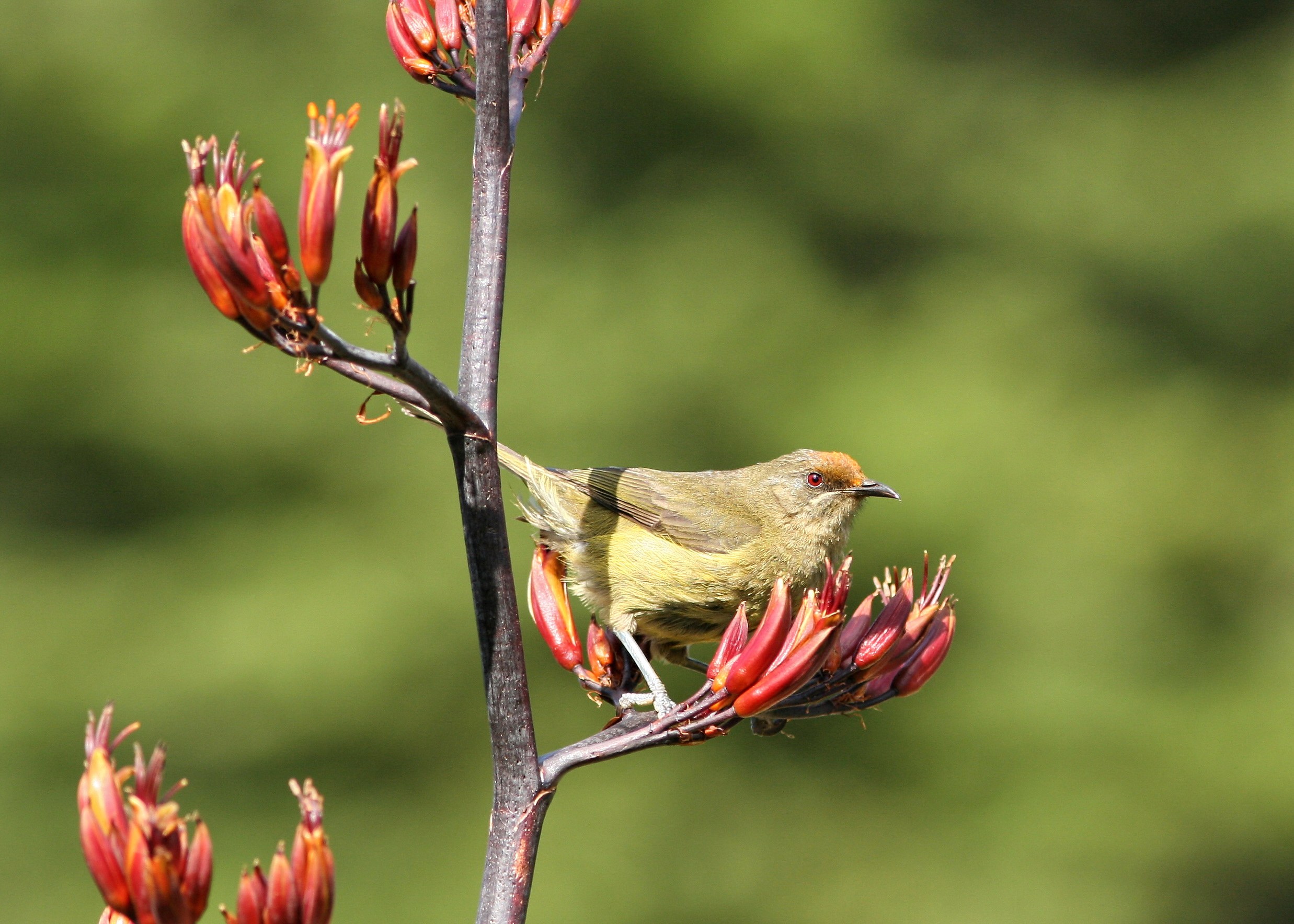 Korimako / New Zealand Bellbird, Anthornis melanura (female); wild bird, feeding on New Zealand Flax. Orange crown is flax pollen.